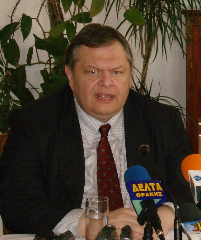 Evangelos Venizelos, press conference, Komotini 24.05.2007.